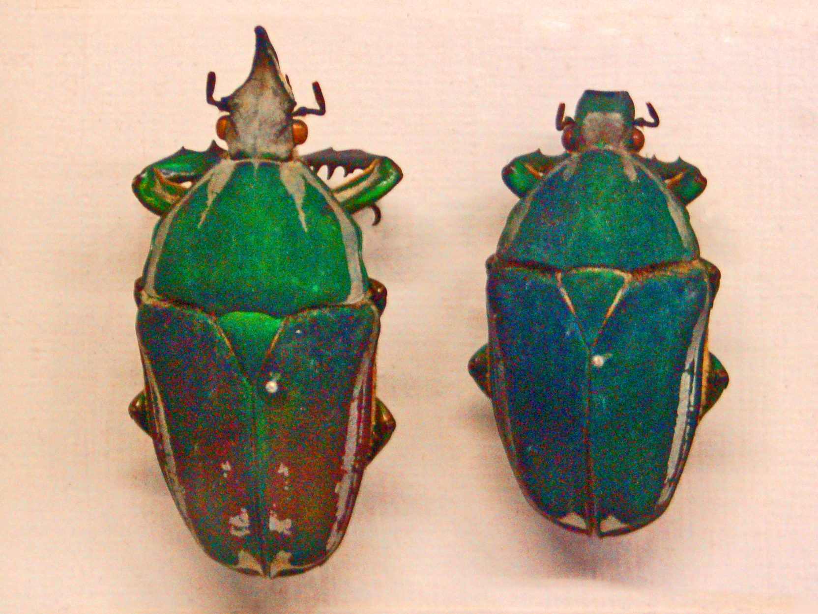 Mecynorhina torquata, male and female. Mounted specimen at the National Museum (Prague)